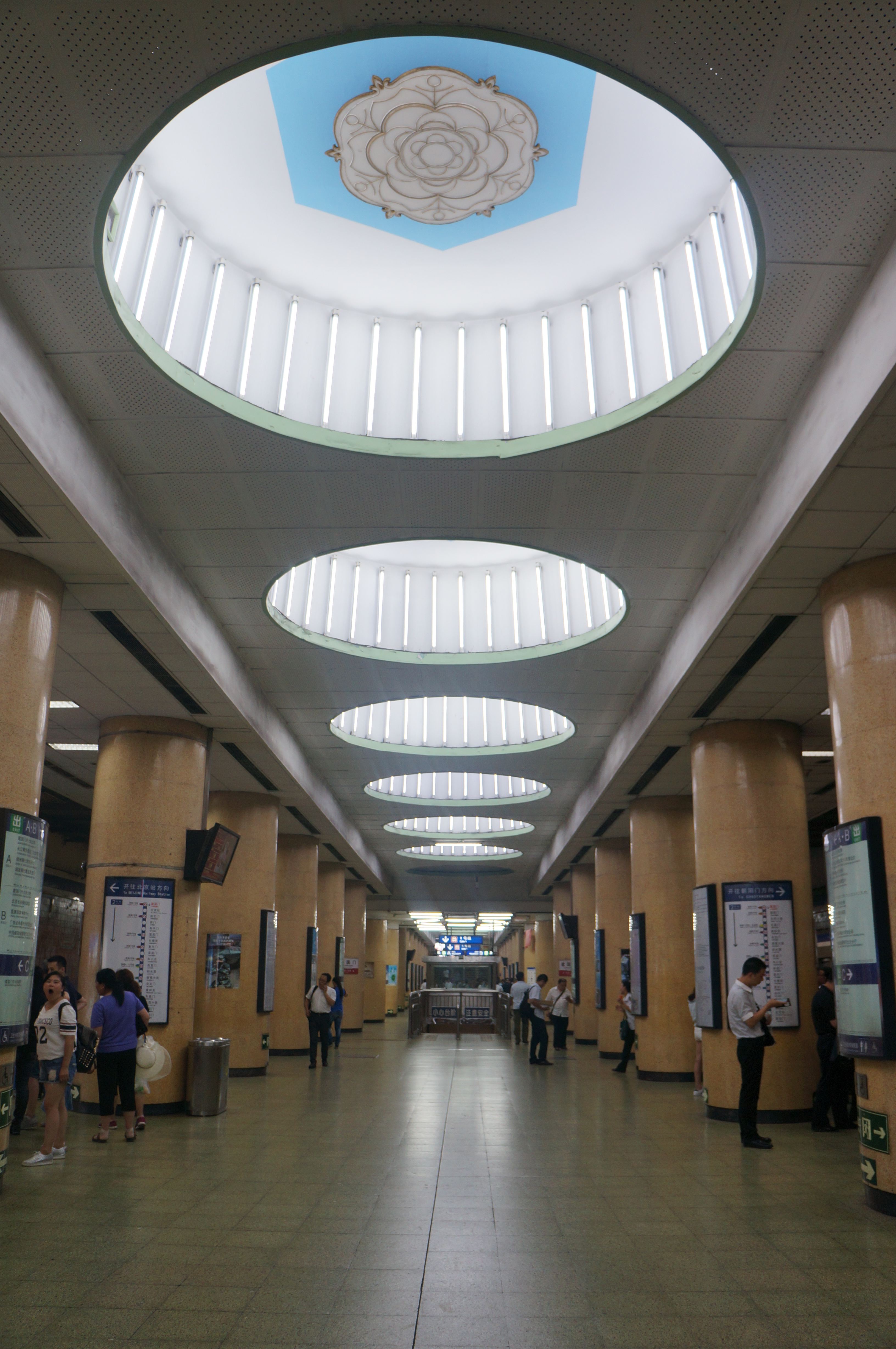 201606 Beautiful decorations on L2 platform of Jianguomen Station